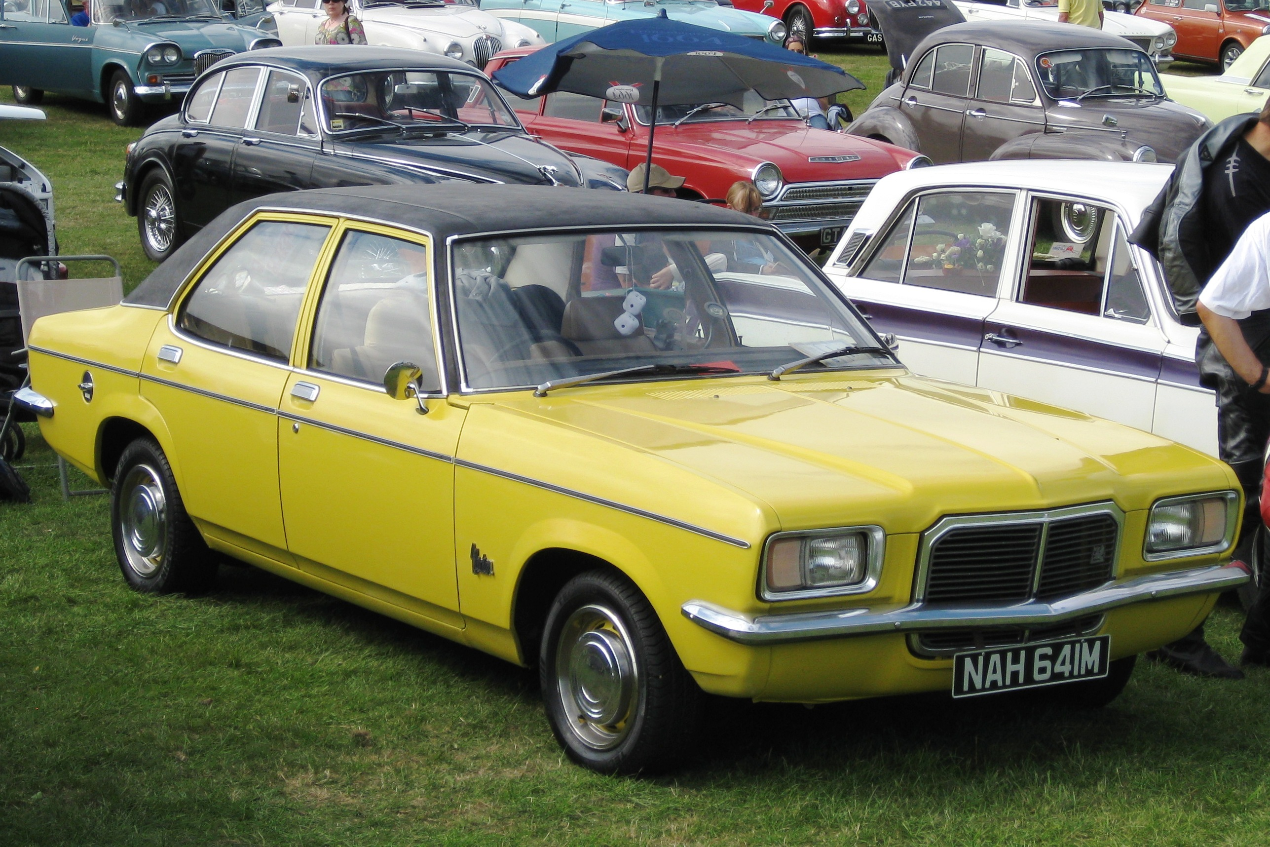 Vauxhall Victor FE